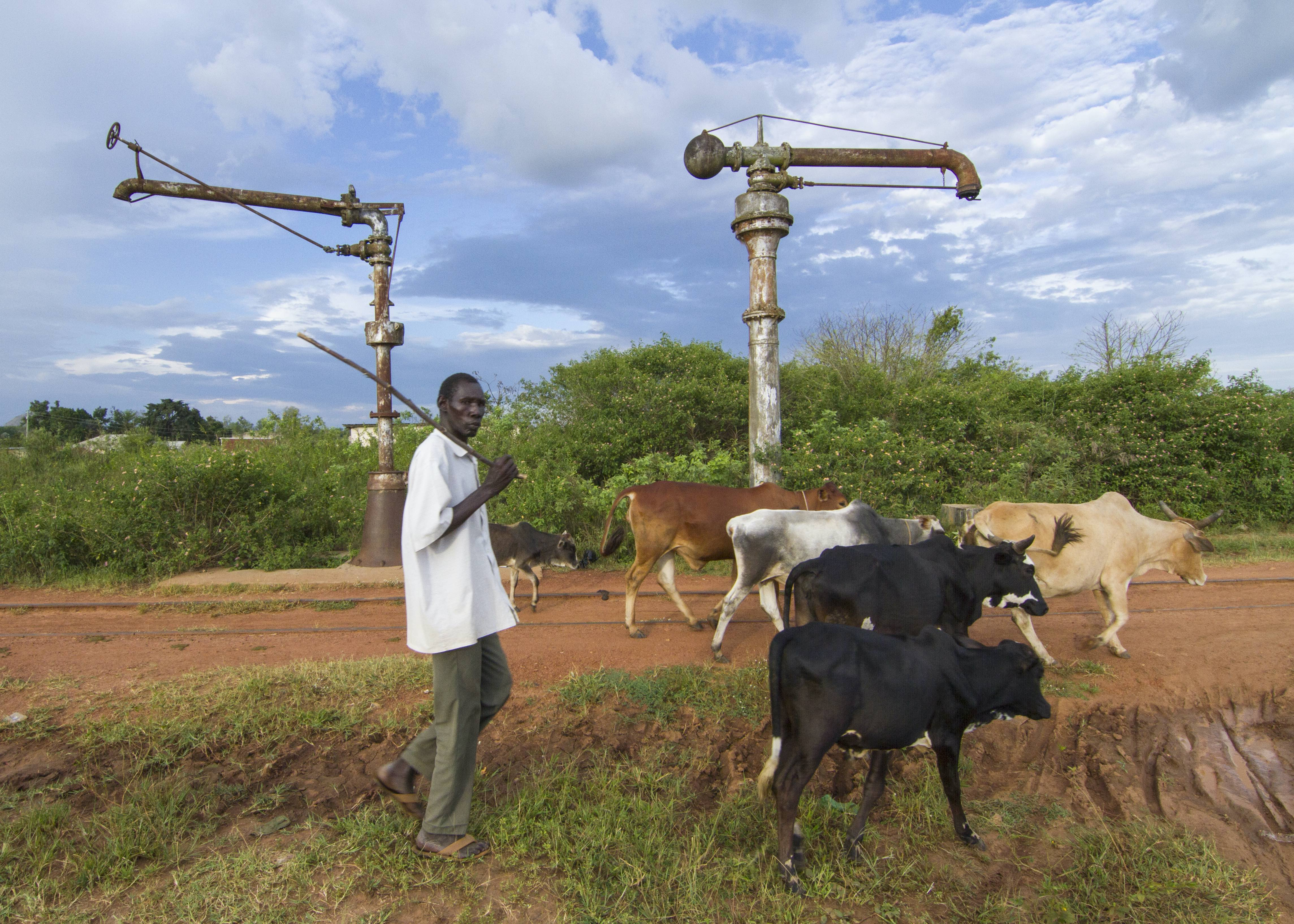 A man herds his cattle along the train tracks of the old railway in Lira, Uganda This is an image with the theme "Africa on the Move or Transport" from: Uganda